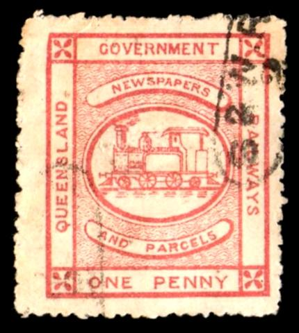 1 penny stamp of the Queensland Government Railways.